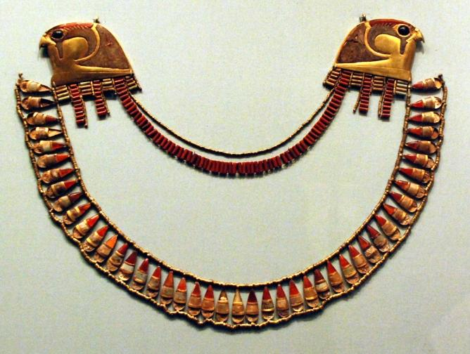 Jewellry from the tomb of Thutmose III's 3 foreign (Syrian) wives, Menhet, Menwi and Merti, found at Wady Gabbanat el-Qurud. Their tomb here was originally discovered and looted in 1916 by local villagers but their treasures were later reassembled and is now located in the Metropolitan Museum of New York.